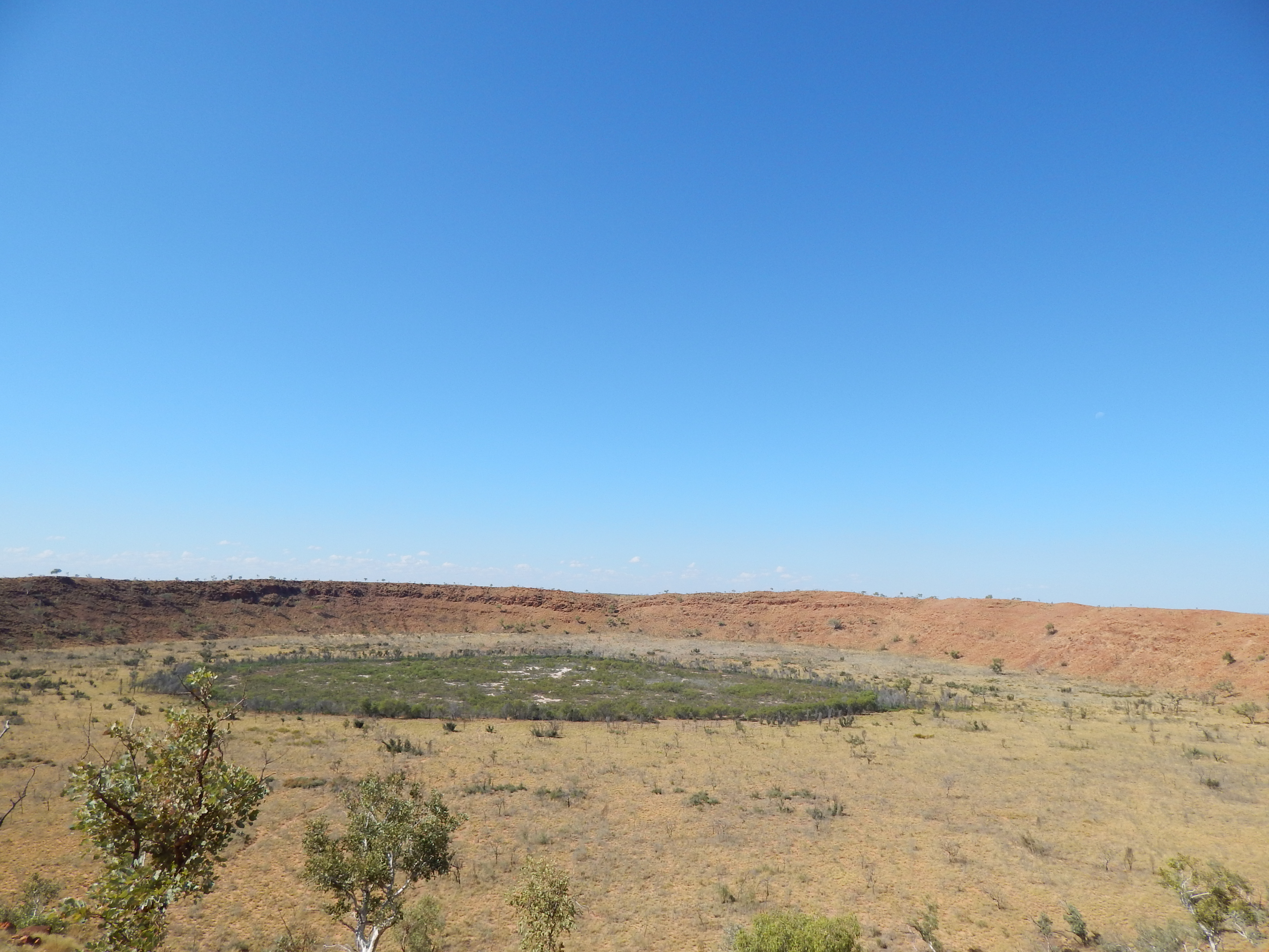 wolfe creek meteorite crater